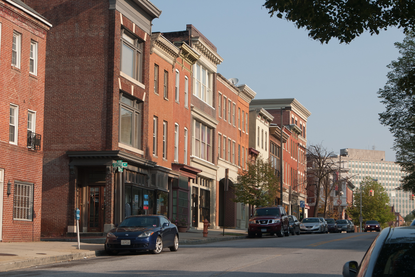 Buildings on Eutaw Street in the Seton Hill Historic District, Baltimore, Maryland.